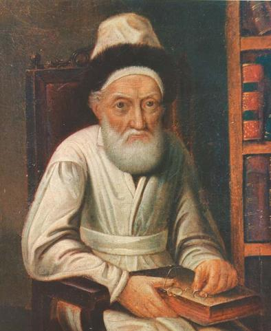 Rabbi Menachem Mendel Schneersohn, the Tzemach Tzedek, the Third Rabbi of Lubavitch. The seventh Lubavitcher Rebbe was named similarly: Menachem Mendel Schneerson (without an "h" in his surname.) The portrait was painted by an unknown non-Jewish artist, towards the end of the Tzemach Tzedek's life; the exact year is not known. All published pictures of the Tzemach Tzedek are derived from this one. The original portrait was in the possession of the Tzemach Tzedek's grandson Rabbi Shlomo Zalman Schneersohn (the Magen Avos), who was rebbe in Kopust from 1866 to 1900. As of 1991 it was in the possession of the Magen Avos's great-grandson, Yehuda Leib Ginsburg, of Moscow. A copy is in the Chabad Library, and a detailed discussion (in Hebrew) of its authenticity is found on pages 51-56 of PDF document this.